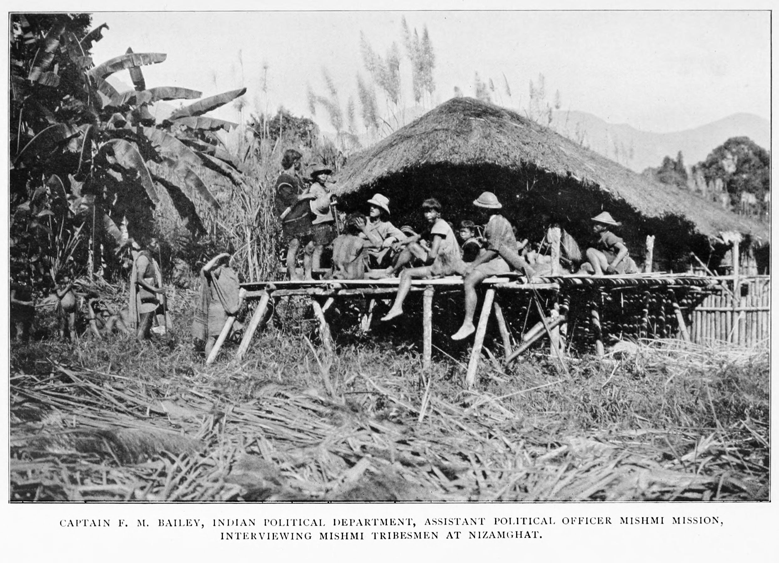 Captain F. M. Bailey, Indian political department, assistant political officer Mishmi mission, interviewing Mishmi tribesmen at Nizamghat